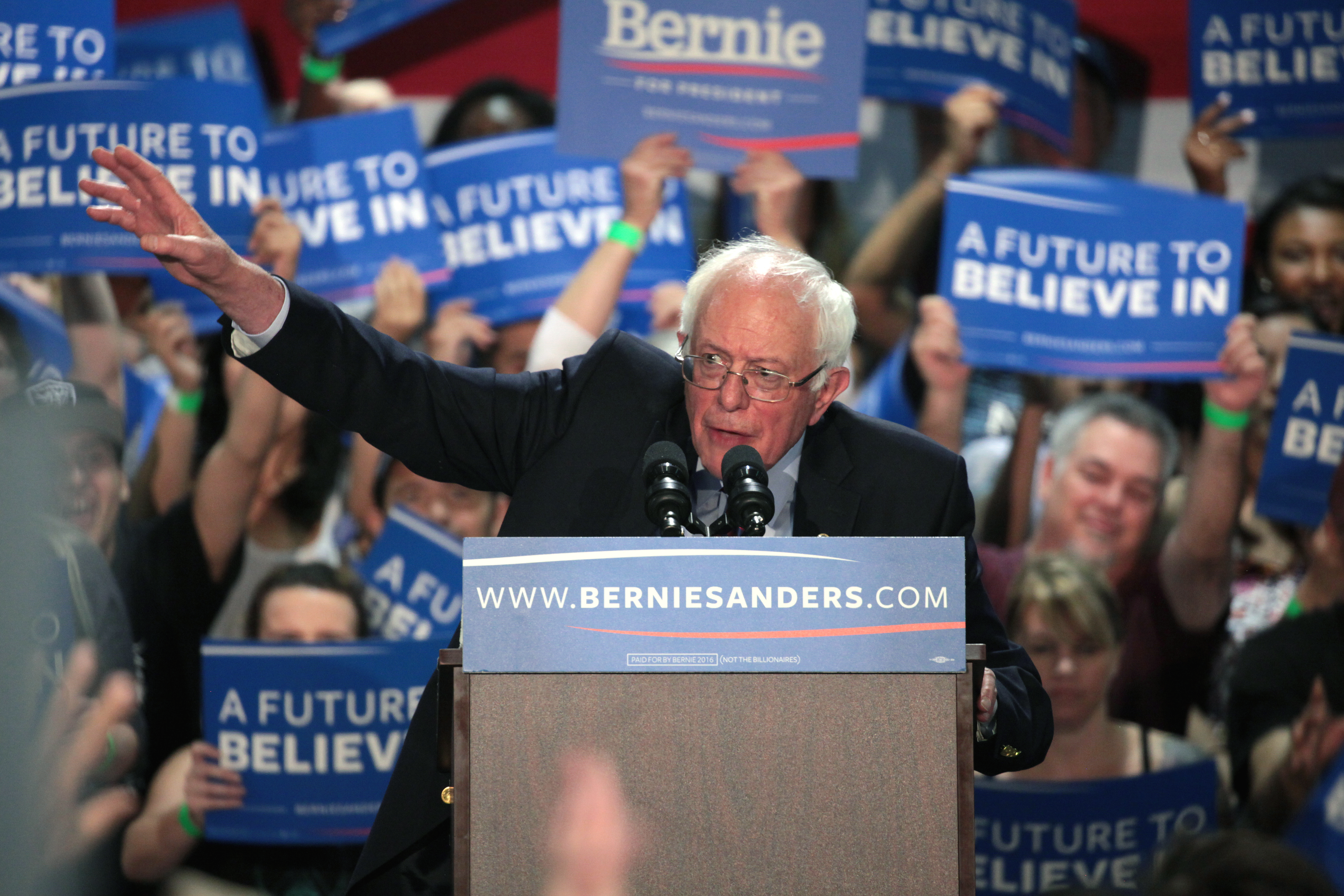 U.S. Senator Bernie Sanders speaking with supporters at the Agriculture Center at the Arizona State Fairgrounds in Phoenix, Arizona.